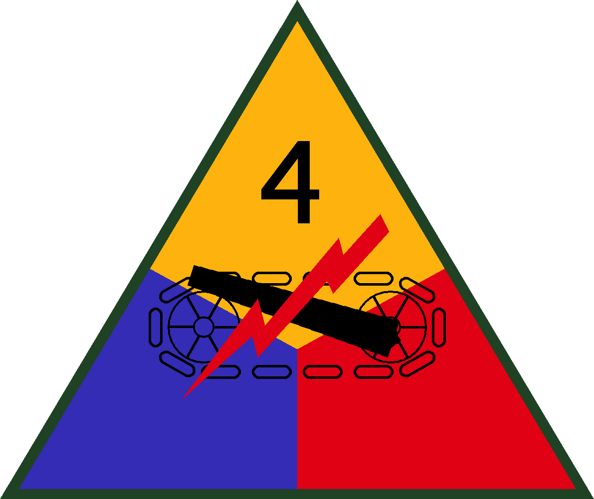 US Army 4th Armored Division Shoulder Sleeve Insignia